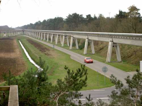 Transrapid Test Facility Emsland